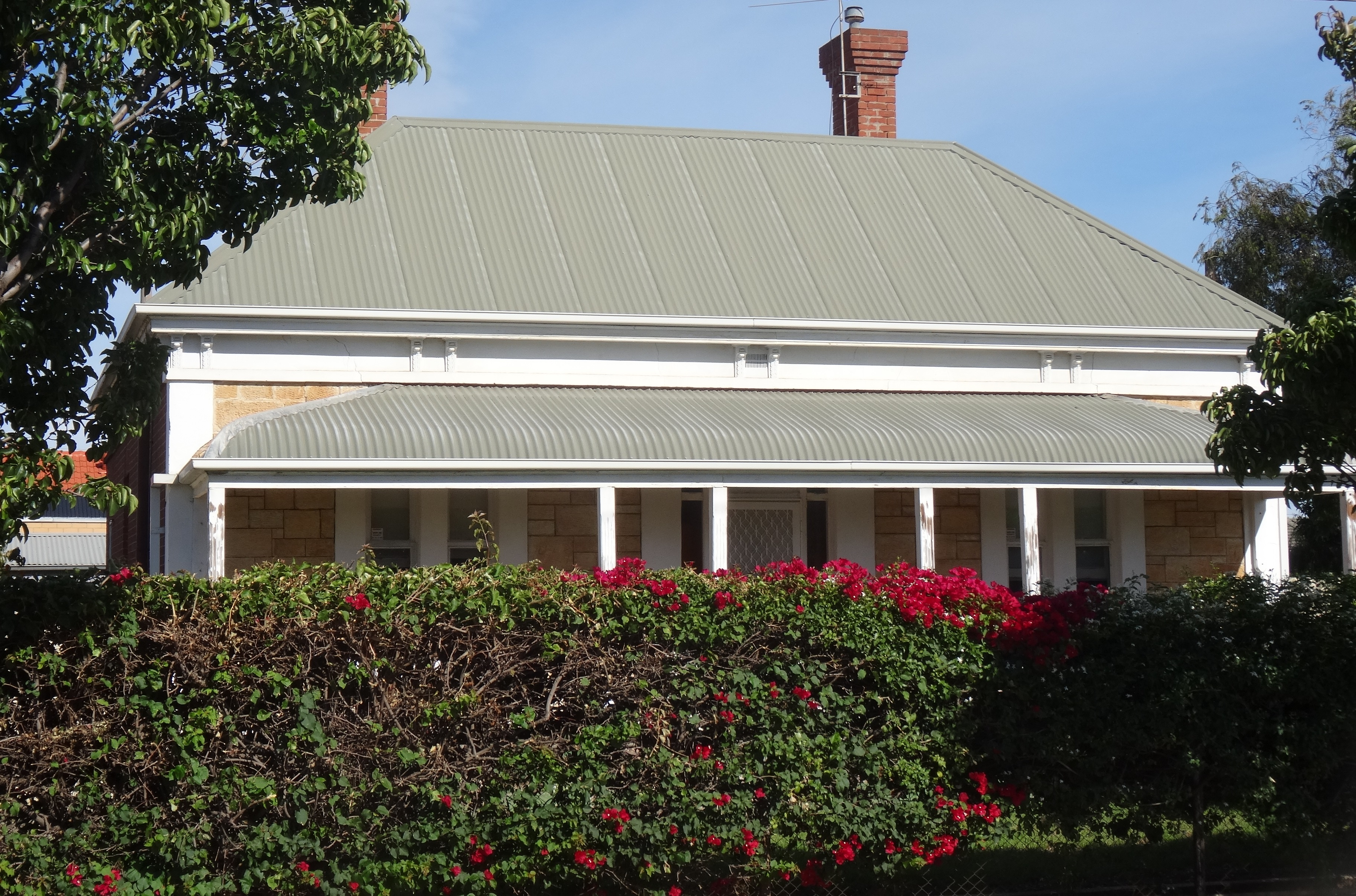 The home of Jack McGowan until his death in 1947 on the site of his horse stables.